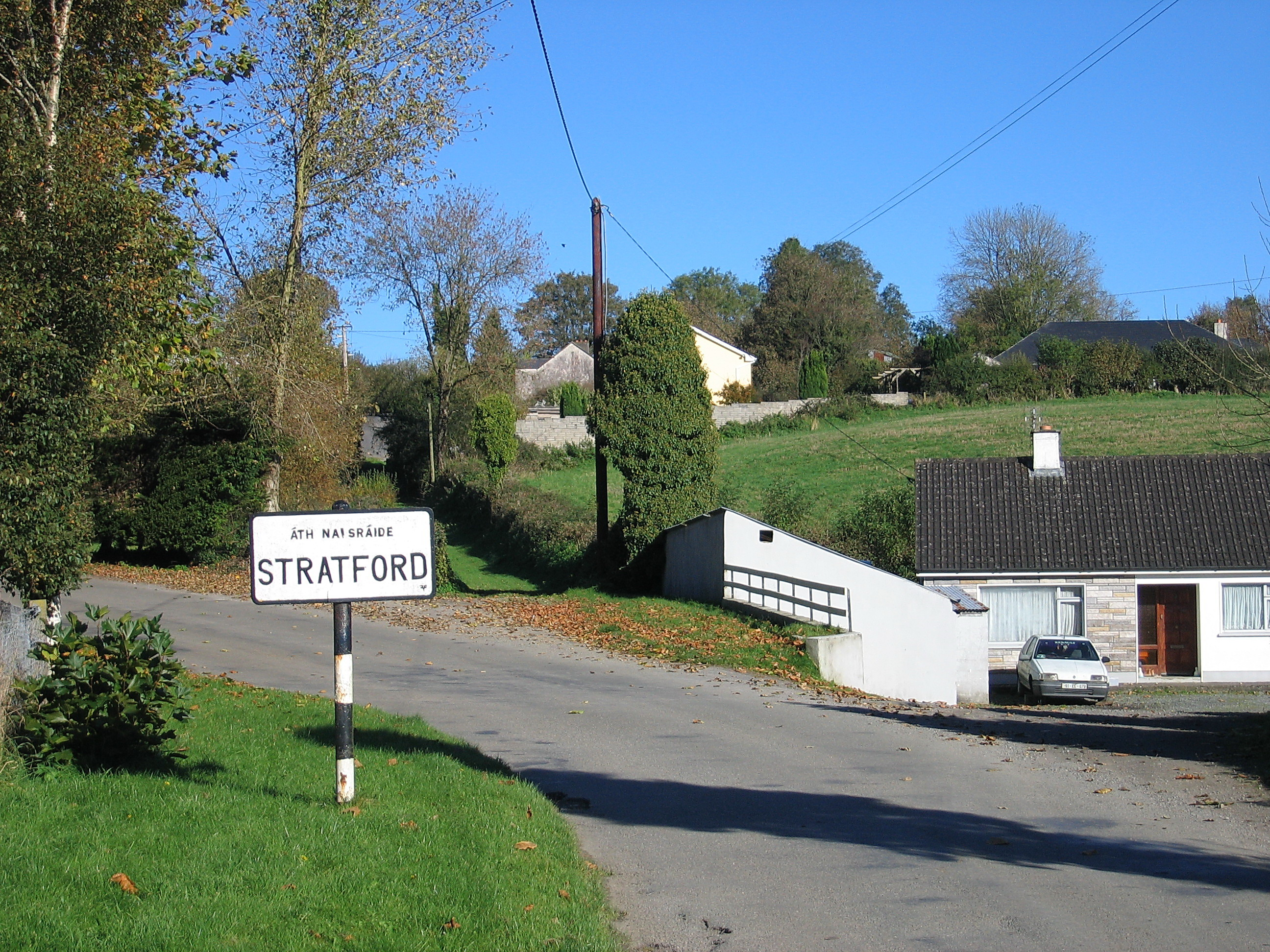 Stratford-on-Slaney, County Wicklow, near to Ath na Sraide, Waterloo Bridge, Saundersville and Mount Slaney, Wicklow, Ireland. Or just Stratford according to this tourist board sign from the 1960s.